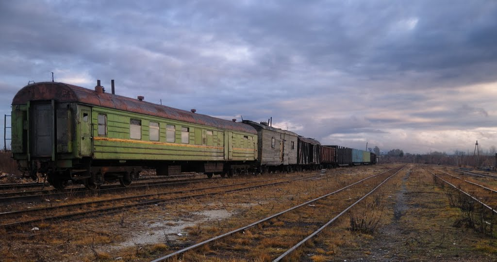 Лесное,ГКЖД